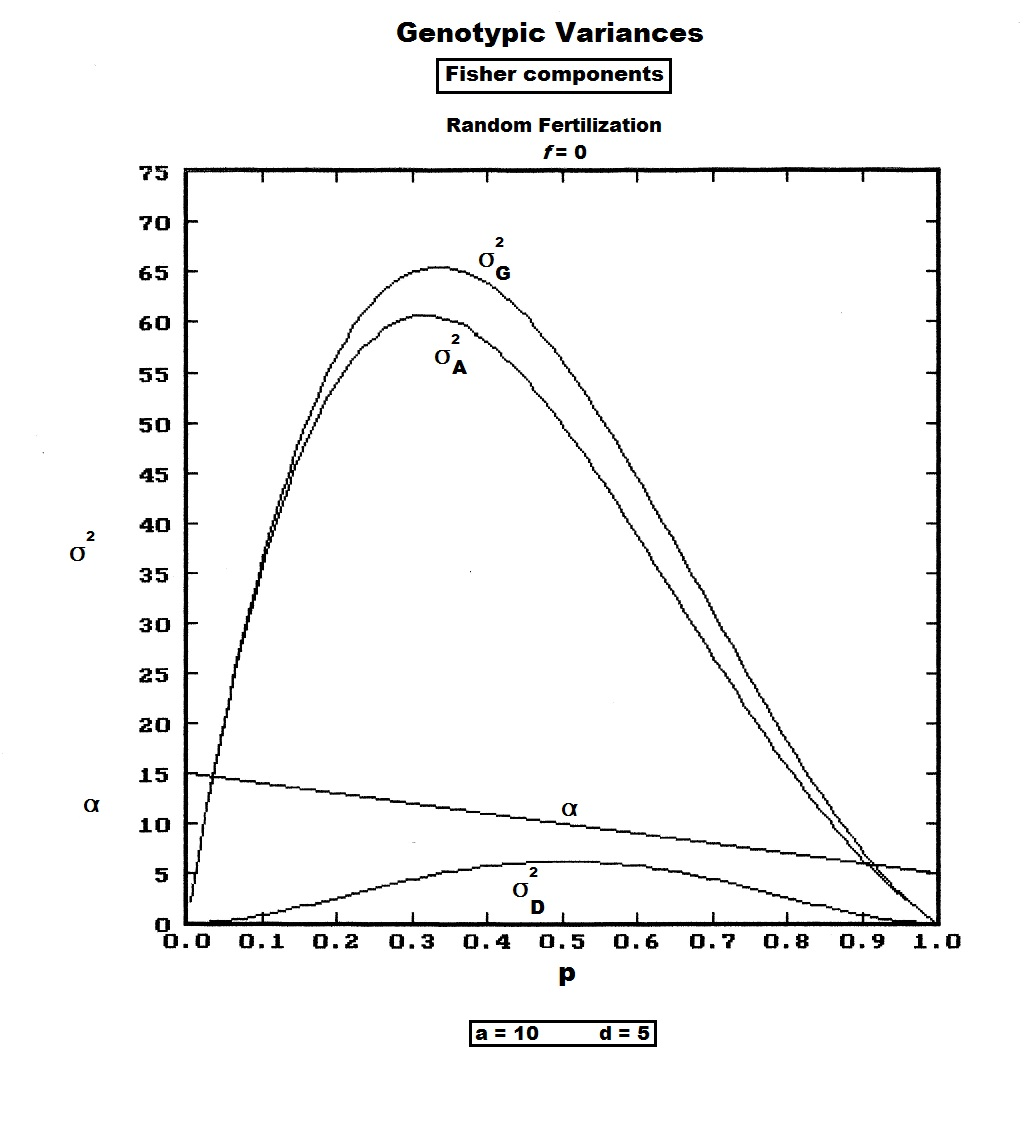 Components of Genotypic variance using Fisher's method.